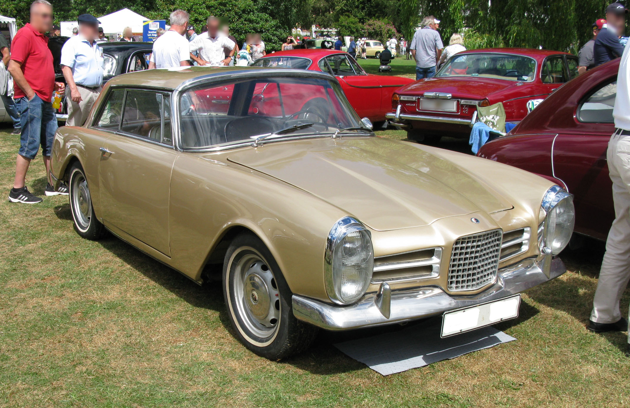 1964 Facel Vega III